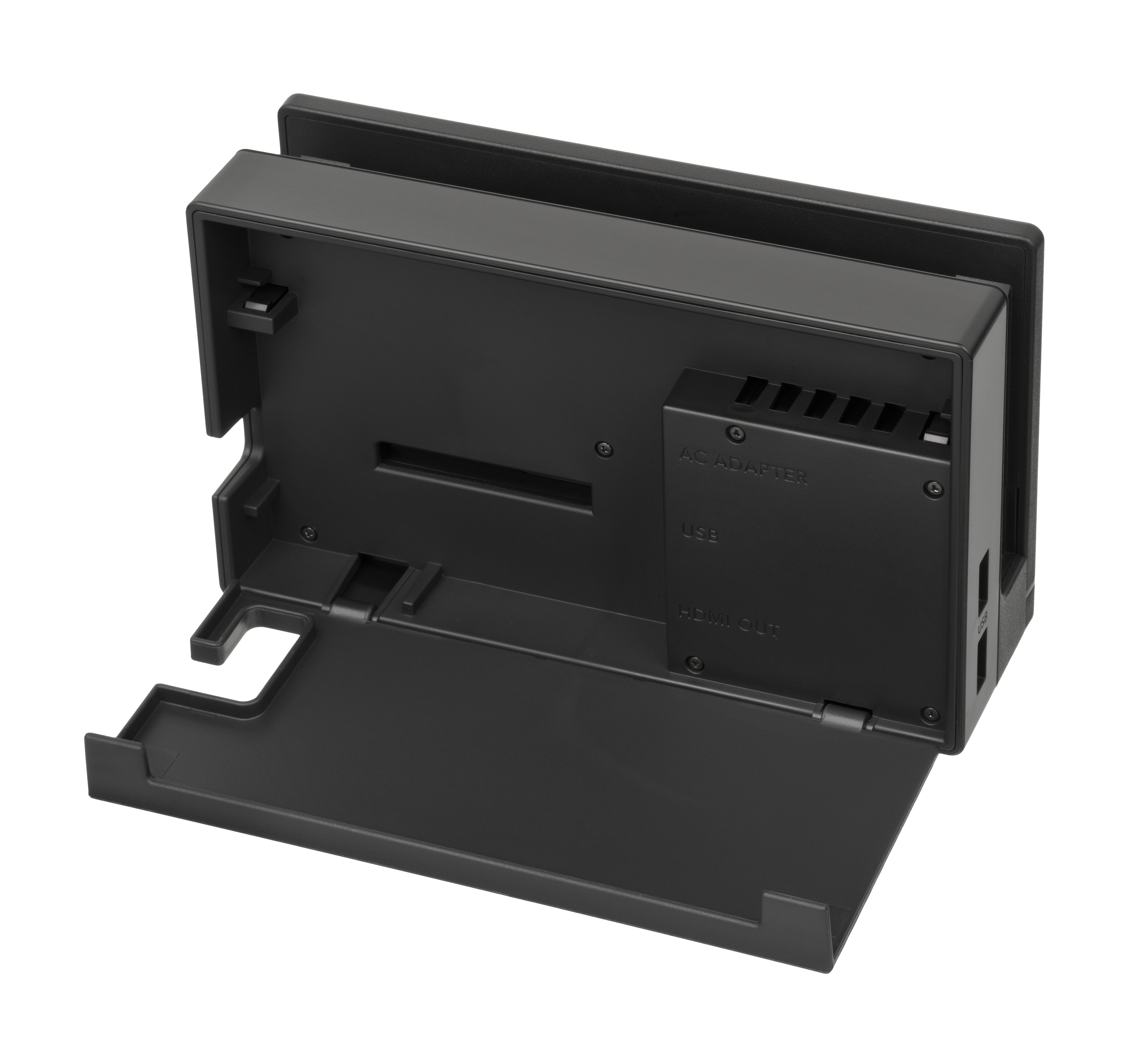 The dock for Nintendo Switch, a hybrid portable/home console released by Nintendo in 2017. This picture shows the dock without the console inserted.